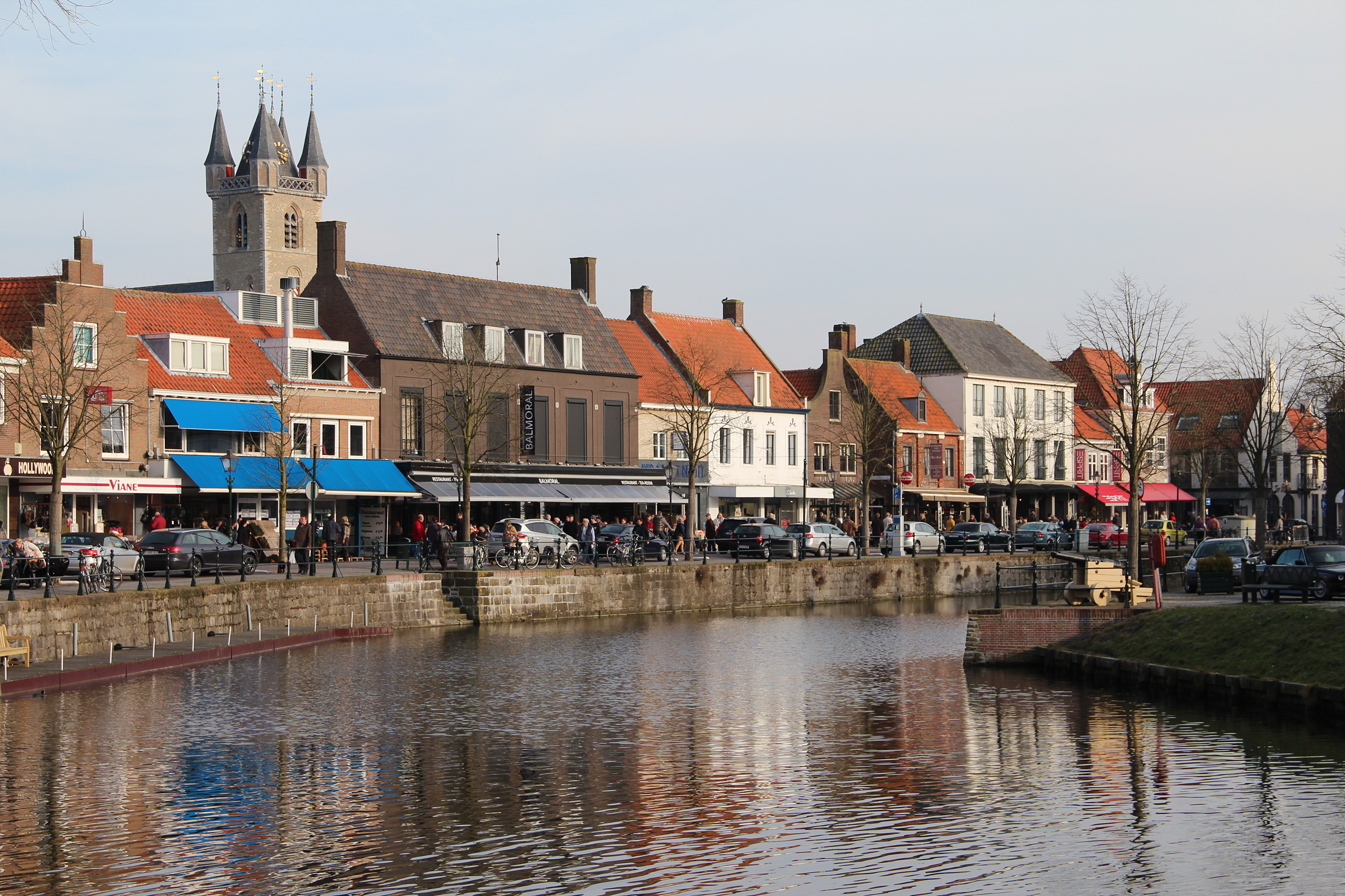 Sluis (Netherlands): the quay